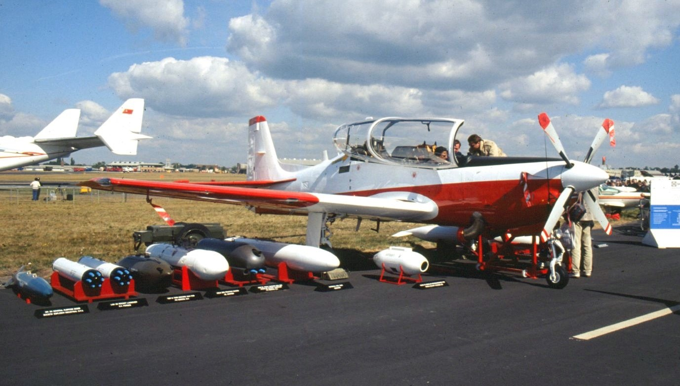 In spite of not carrying any markings, this Tucano was destined for the Kenya Air Force as their 816, and is pictured in the static display at the 1990 Farnborough Air Show. External stores, from left to right: Mk.82 by SEI Spa; LAU-32 7x 70 mm (2.75”) rocket launcher from South Africa; TMP-5 7.62mm Twin Machine Gun Pod by FN Herstal; CBLS-200 practice bomb carrier; RMP LC (Rocket Machine Gun pod) with a 12.7mm M3P and (4x) 70 mm rokets by FN Herstal; External Fuel Tank; and Vicom 70 Modular Reconnaissance pod by Vinten.